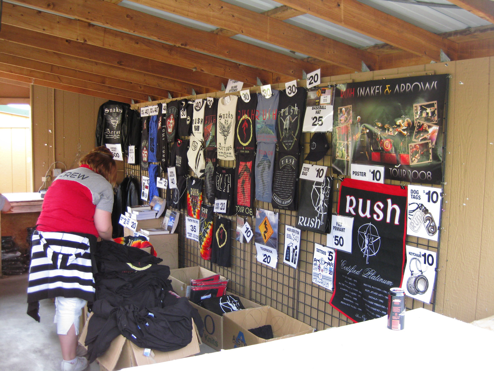 I usually get the tour program, but it looks like it's the same one I got last year, just with some pages added.